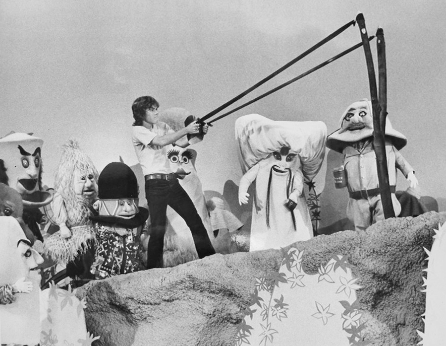 Publicity photo of teen actor Butch Patrick promoting the September 11, 1971 premiere of the ABC television series Lidsville.